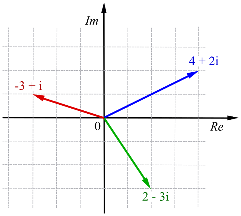 Argand diagram